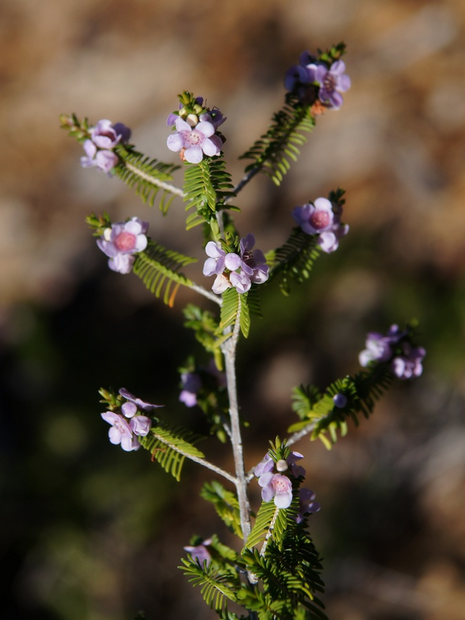 Small shrub, endemic to Western Australia, Geraldton Sandplains. Photographed in Kings park, Perth.